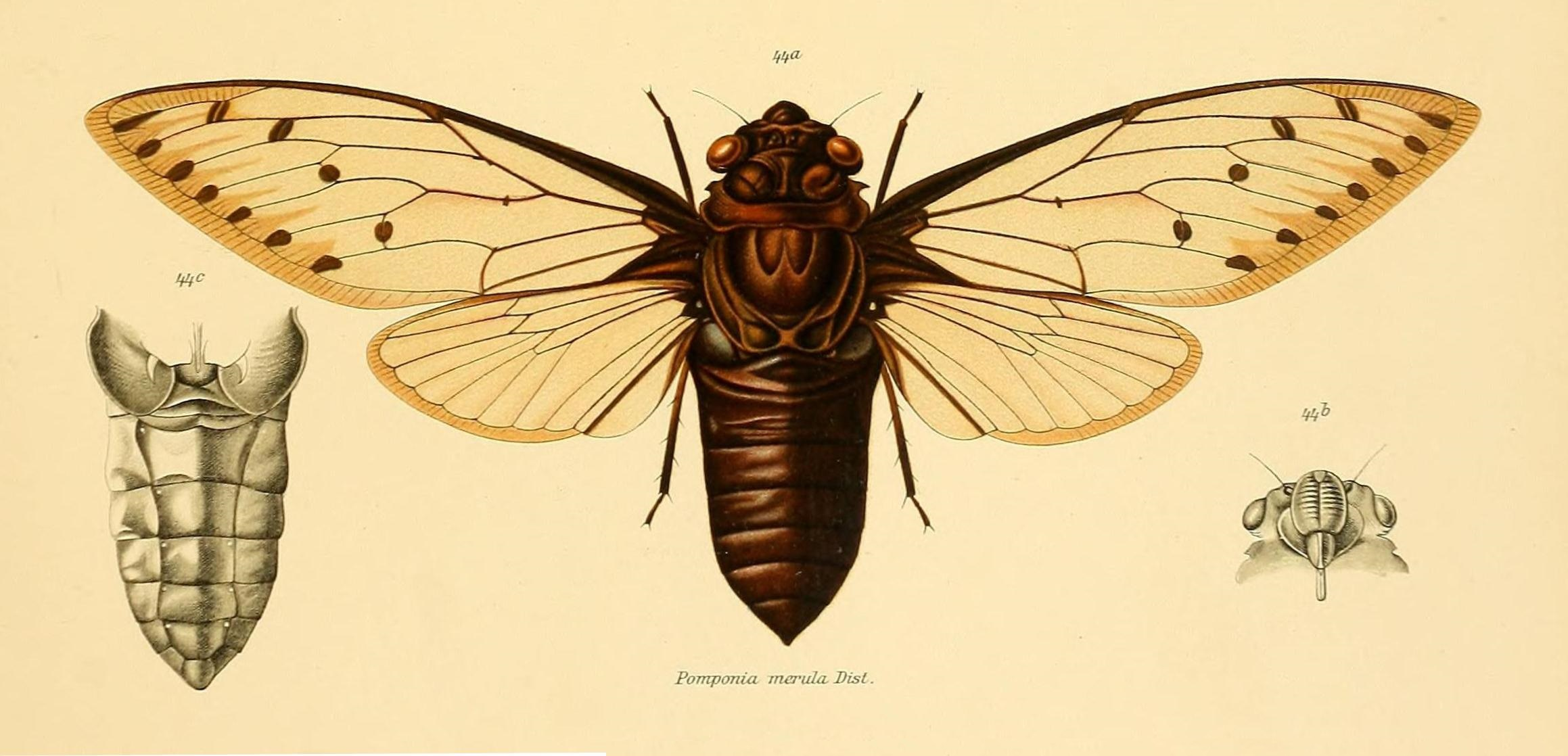 Megapomponia merula (Distant, 1905)